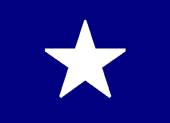 Union Army, XII Corps - Army of the Potomac, 2nd Division Badge